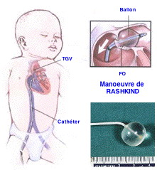 Rashkind's atrioseptostomy